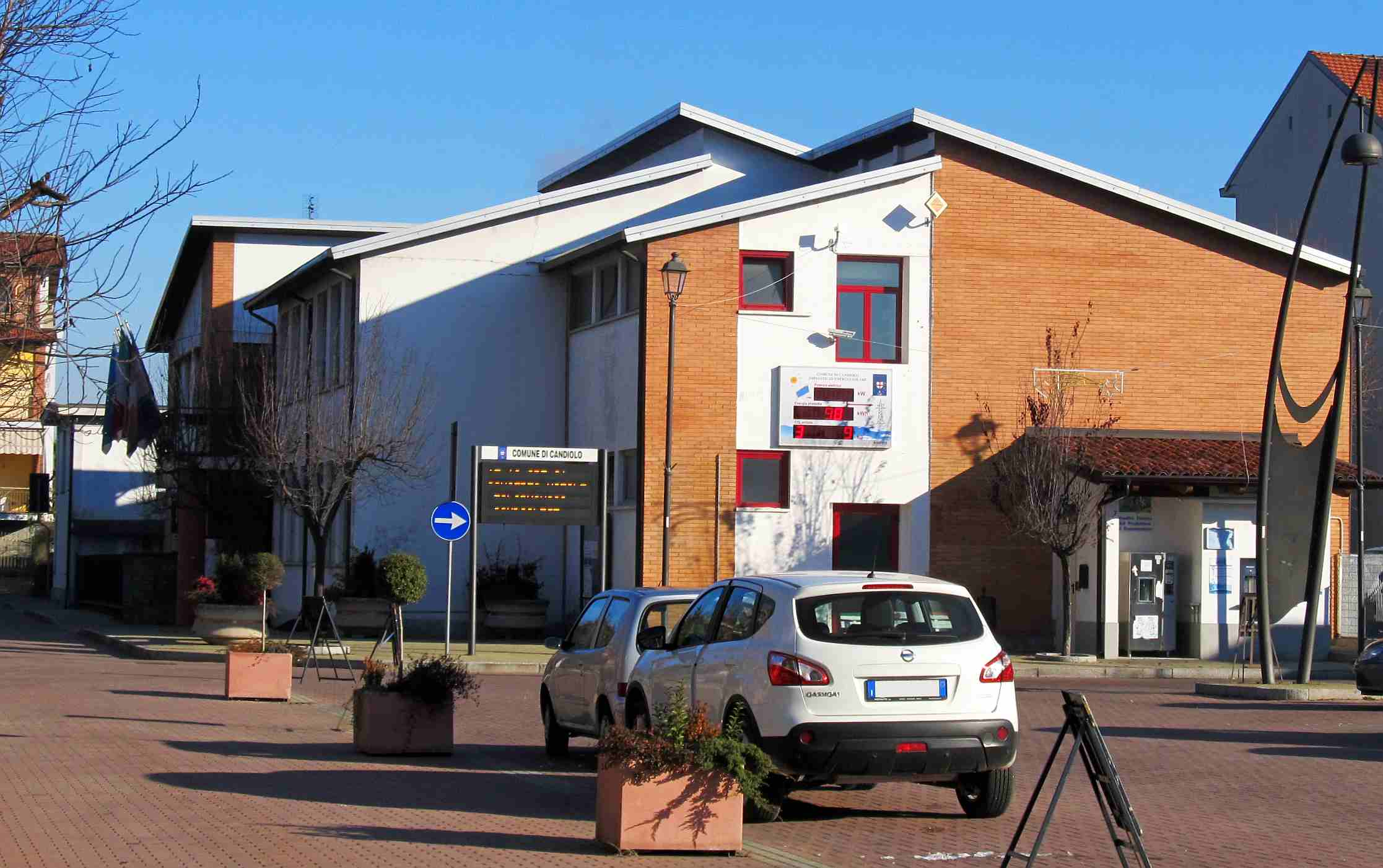 Candiolo (TO, Italy): town hall